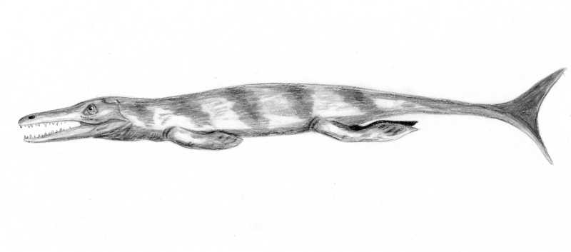 Enaliosuchus, pencil drawing. Enaliosuchus was a genus of marine crocodiliform within the Metriorhynchidae famillia.